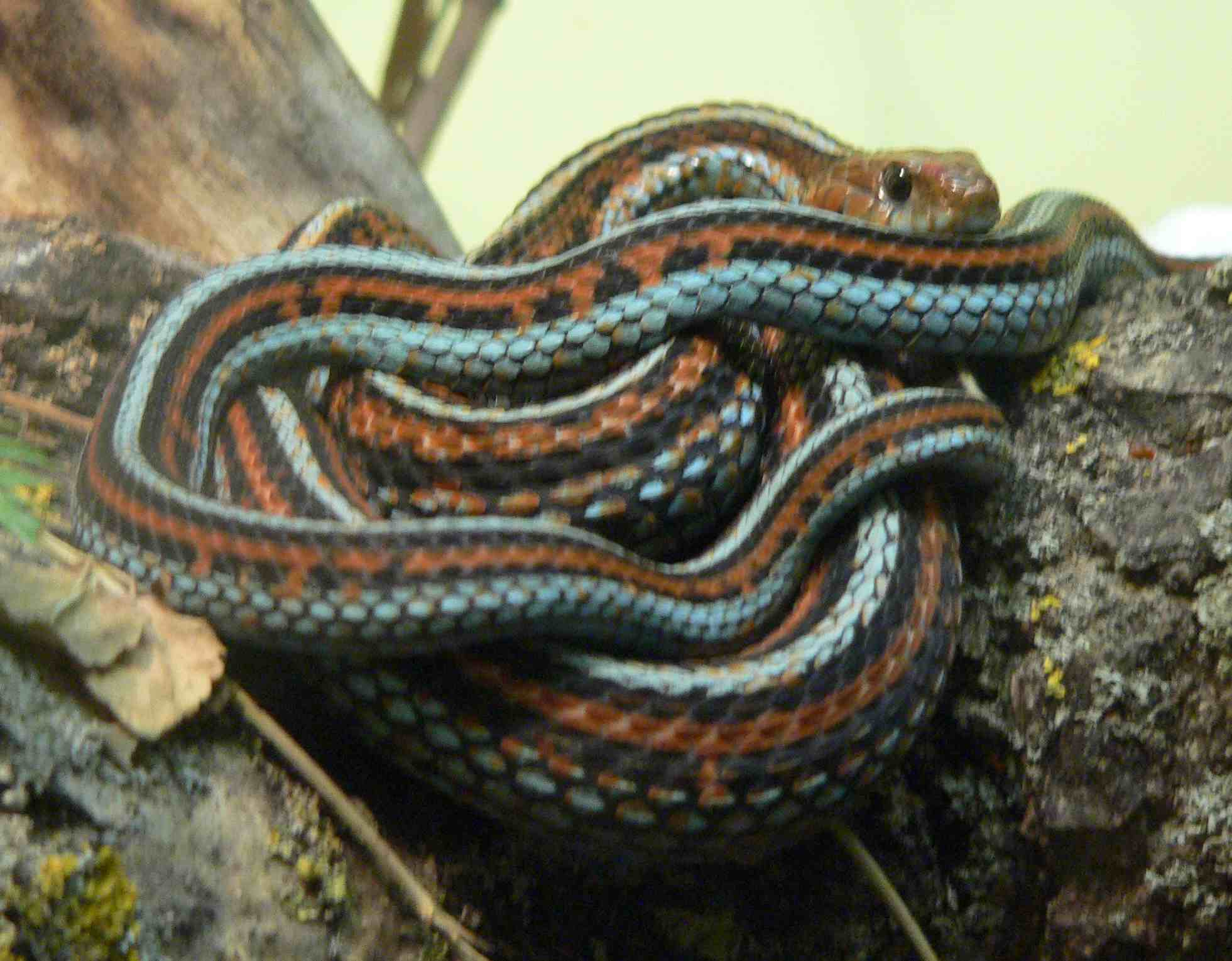 Thamnophis sirtalis tetrataenia